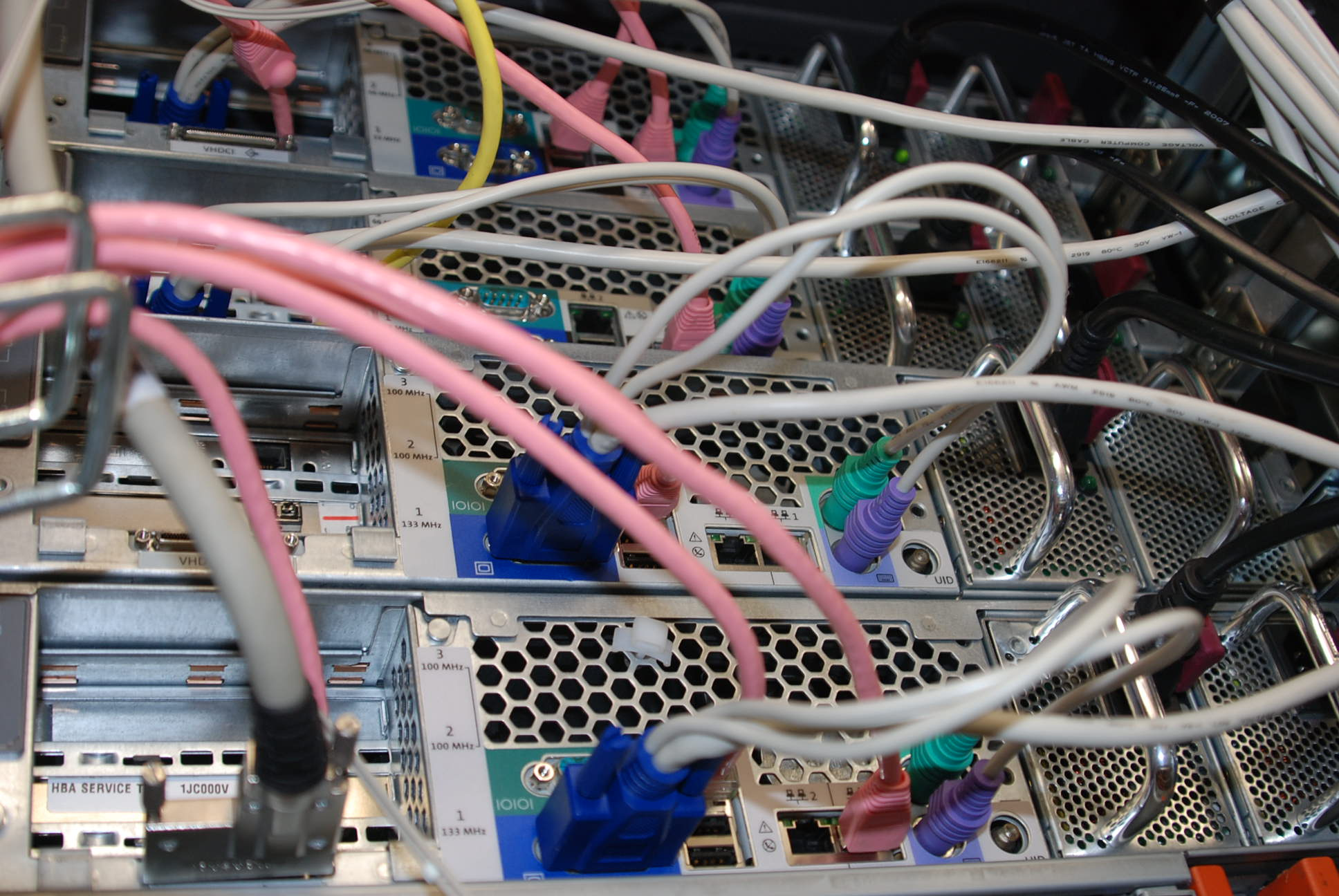 I took this picture.